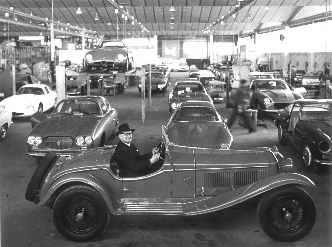 1960s Ugo Zagato in 1930s Alfa Romeo 6C 1750 by himself, possibly a Gran Sport (GS).